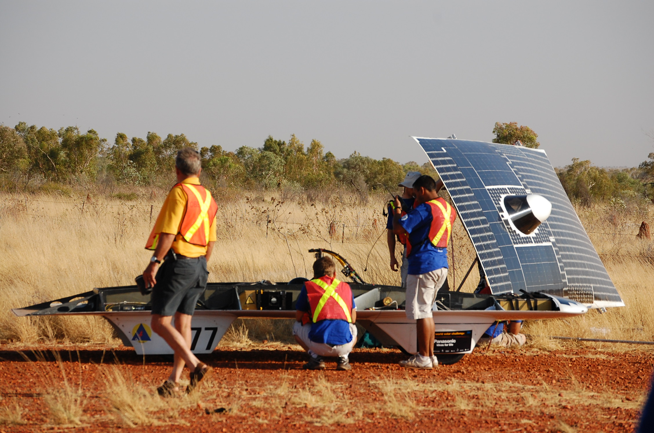 Blue Sky Solar Racing Team working on Cerulean